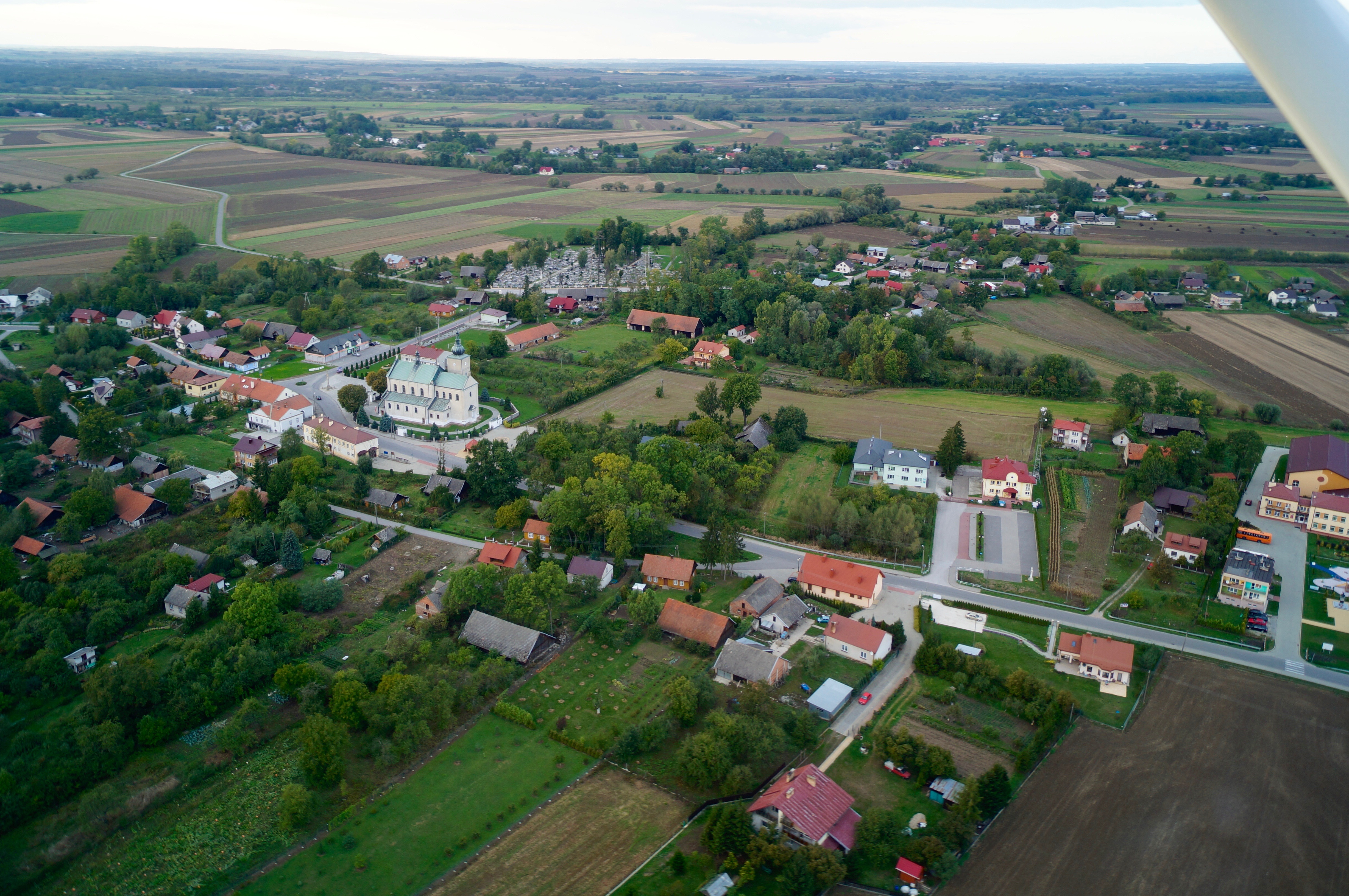 Gręboszów, view from south